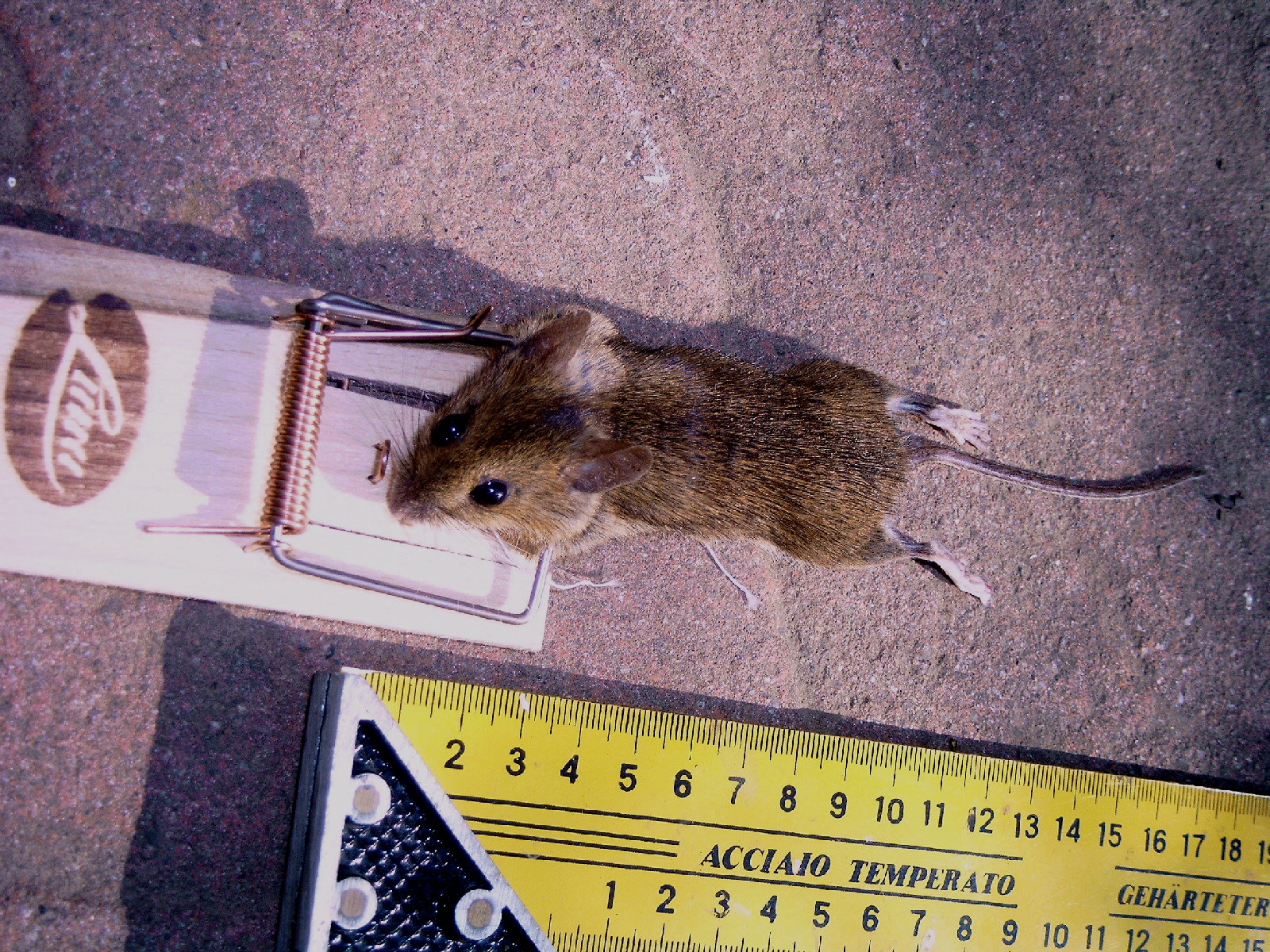 one animal was harmed by this picture